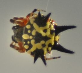 Advanced Spider, Order: Araneomorphs, Six-spined Spider